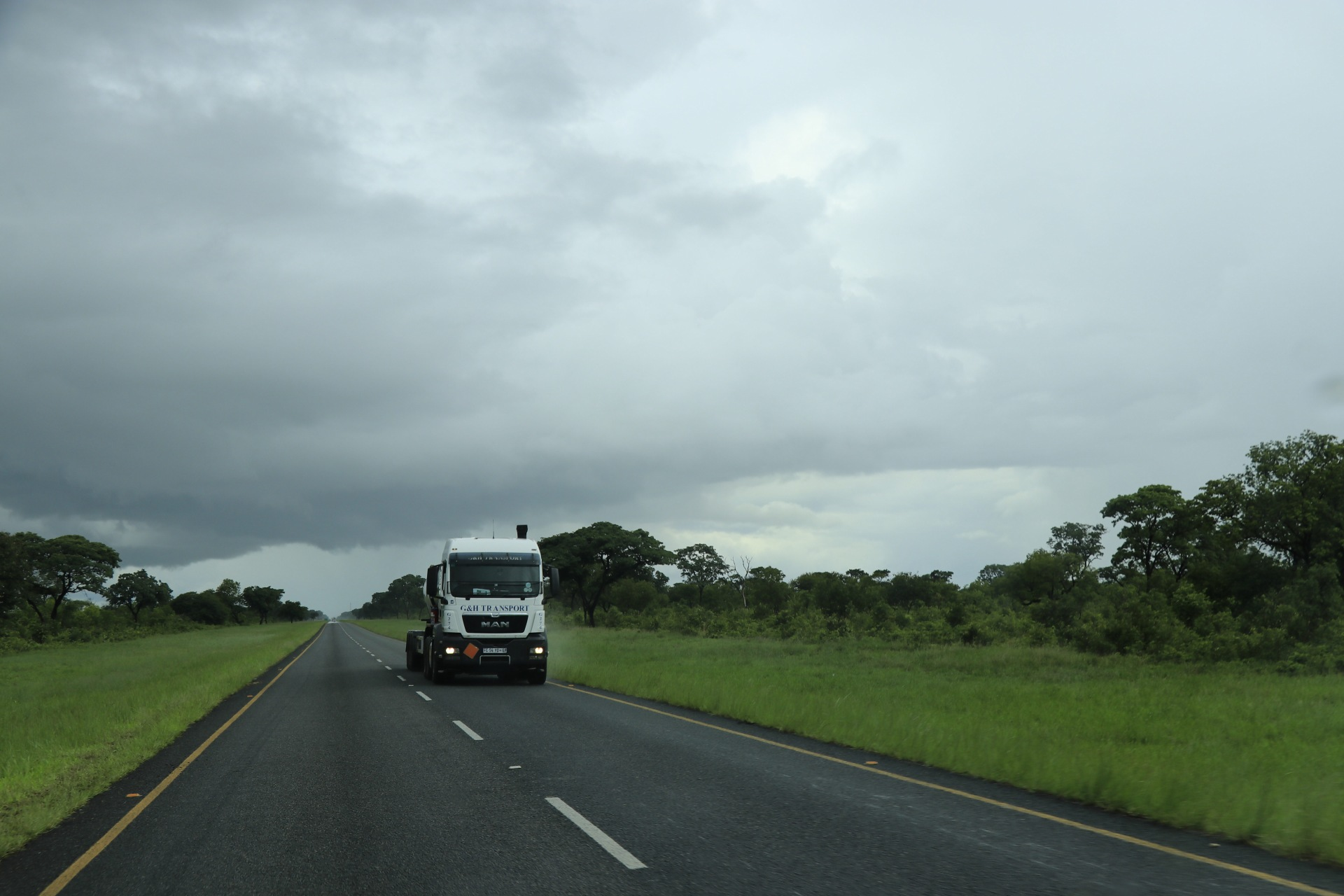 Trucks are major carriers of goods between countries. This truck is on the way to kazungula town and onward to Zambia and possibly DRC This is an image with the theme "Africa on the Move or Transport" from: Botswana